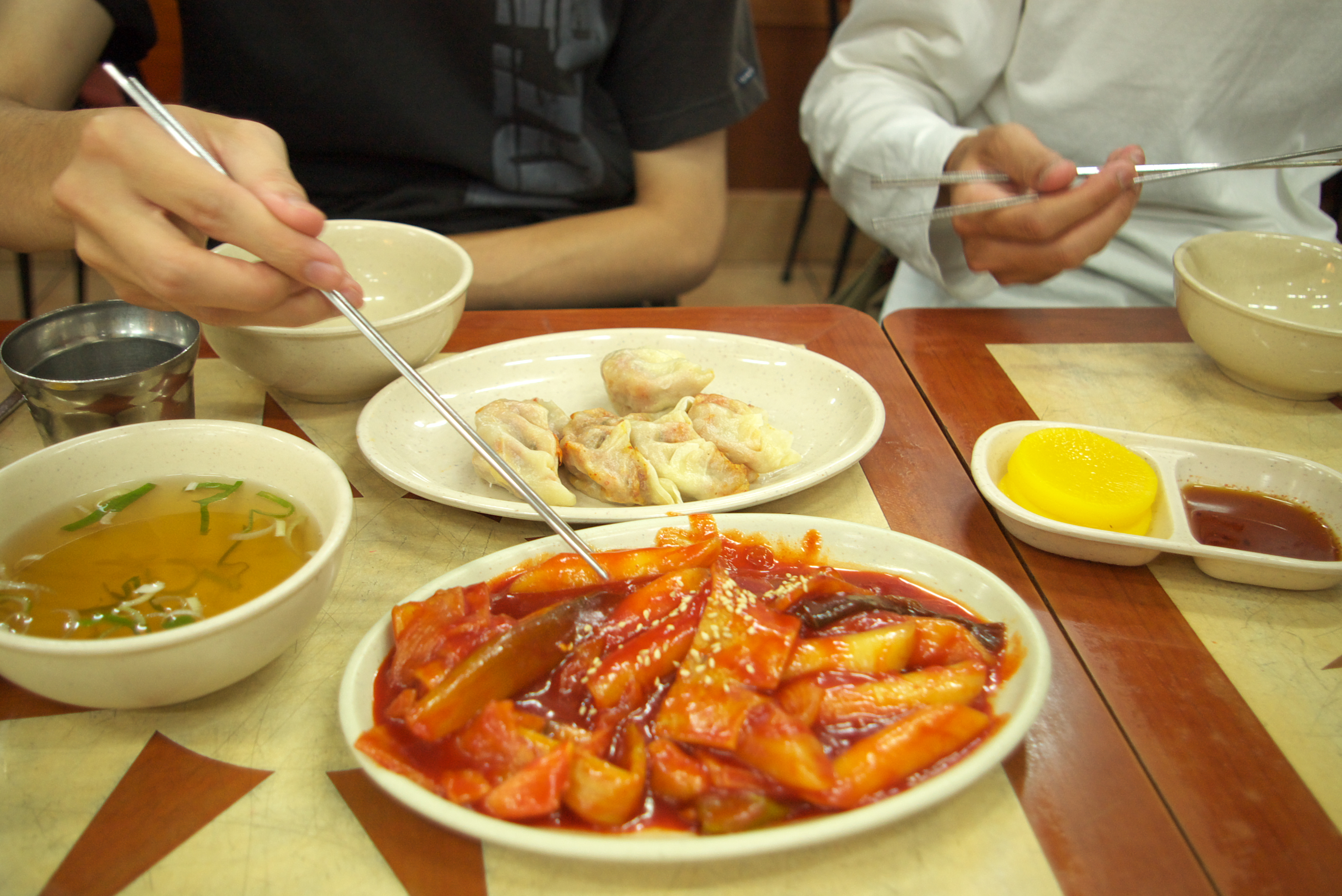 Tteokbokki, hot and spicy rice cake in Korean cuisine